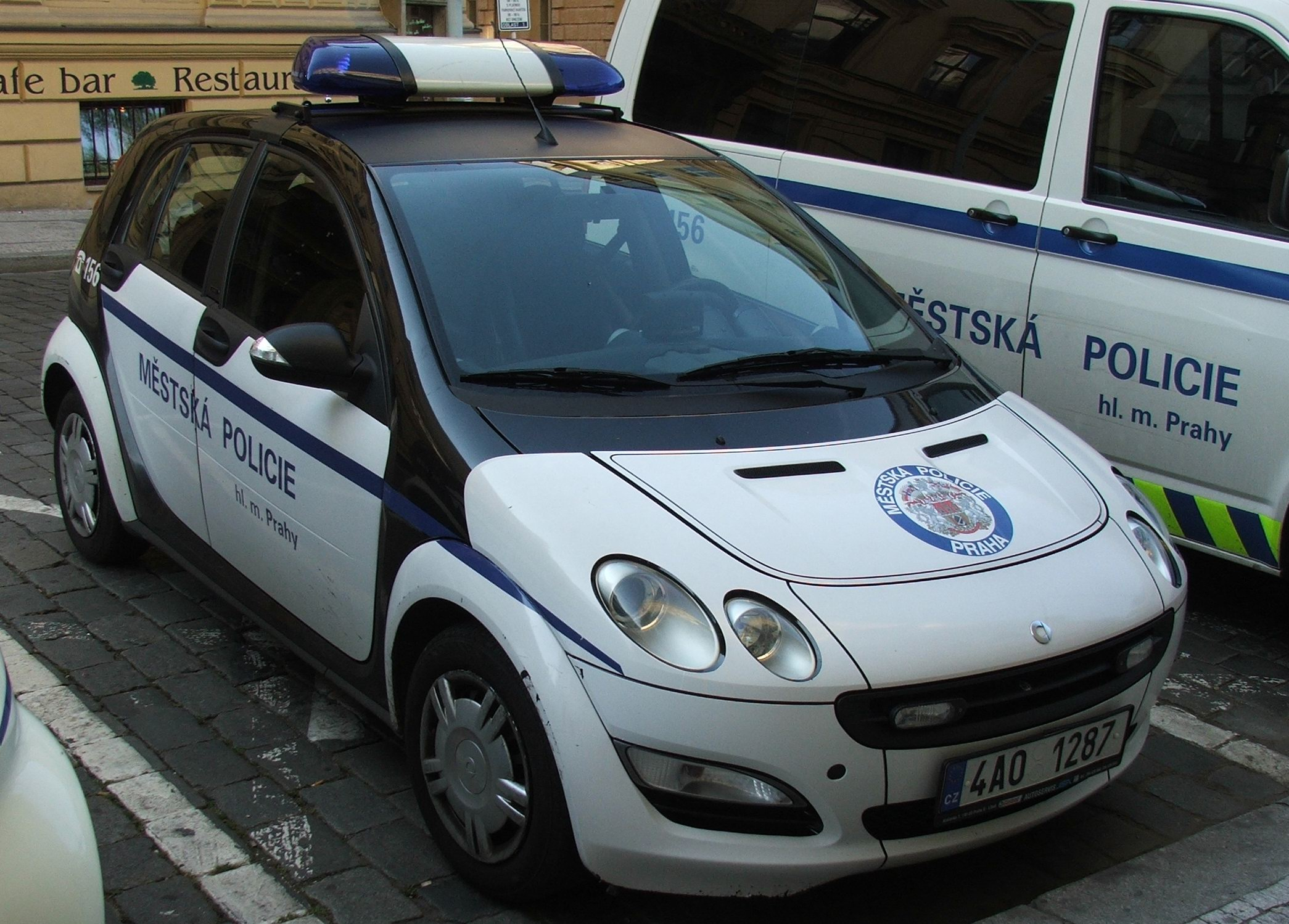 Smart vehicle of Municipal Police of Prague, Czechia